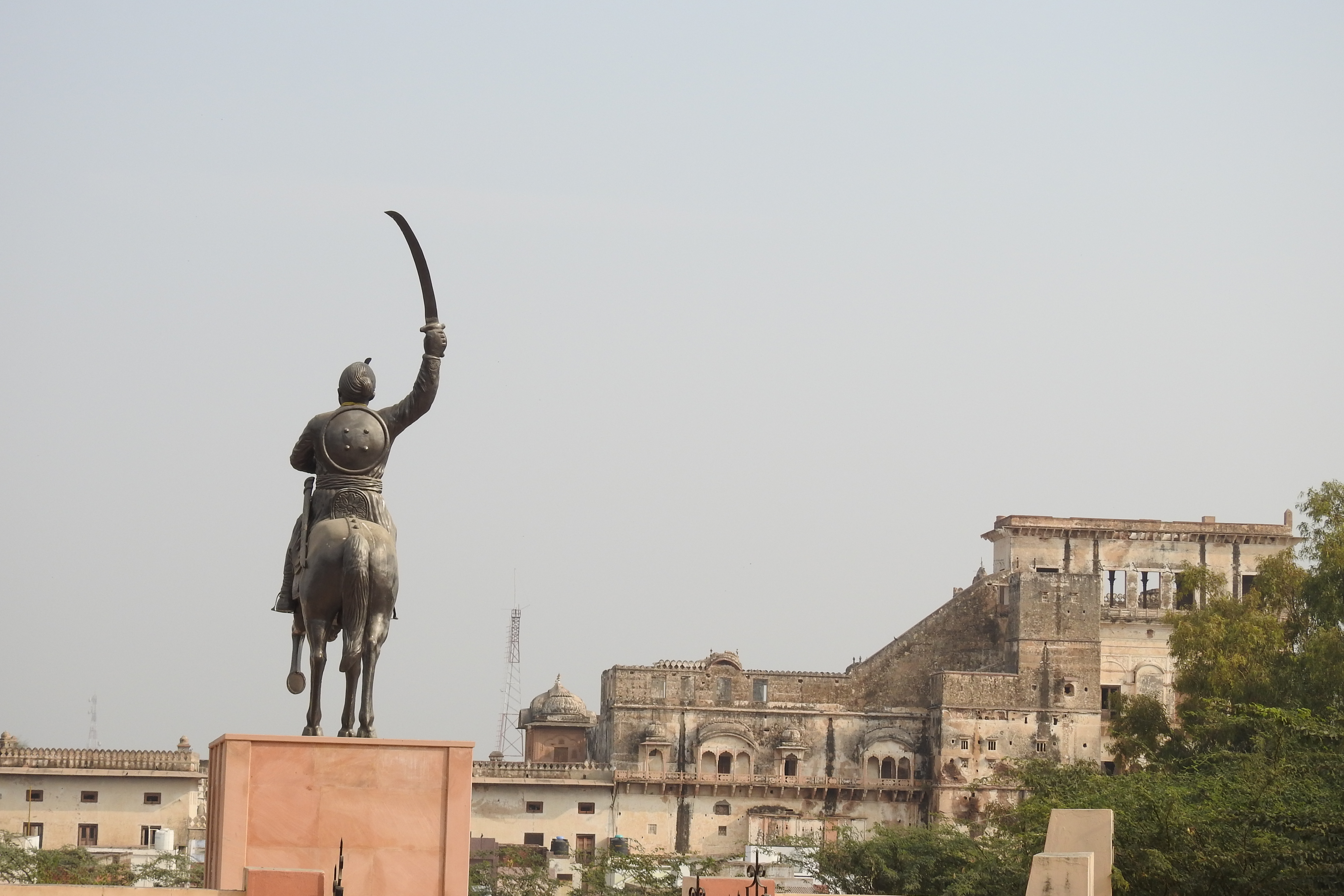 Kishori Mahal Palace, Lohagarh Fort, Bharatpur, Rajasthan, India.